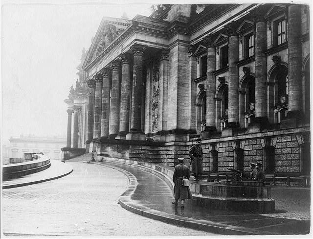 Title: Der durch die Sicherheitspolizei besetzte Aufgang zu der Freitruppe des Reichstagsgebäude, wo am 13 Januar die Menge anstürmte ... Abstract/medium: 1 photographic print.